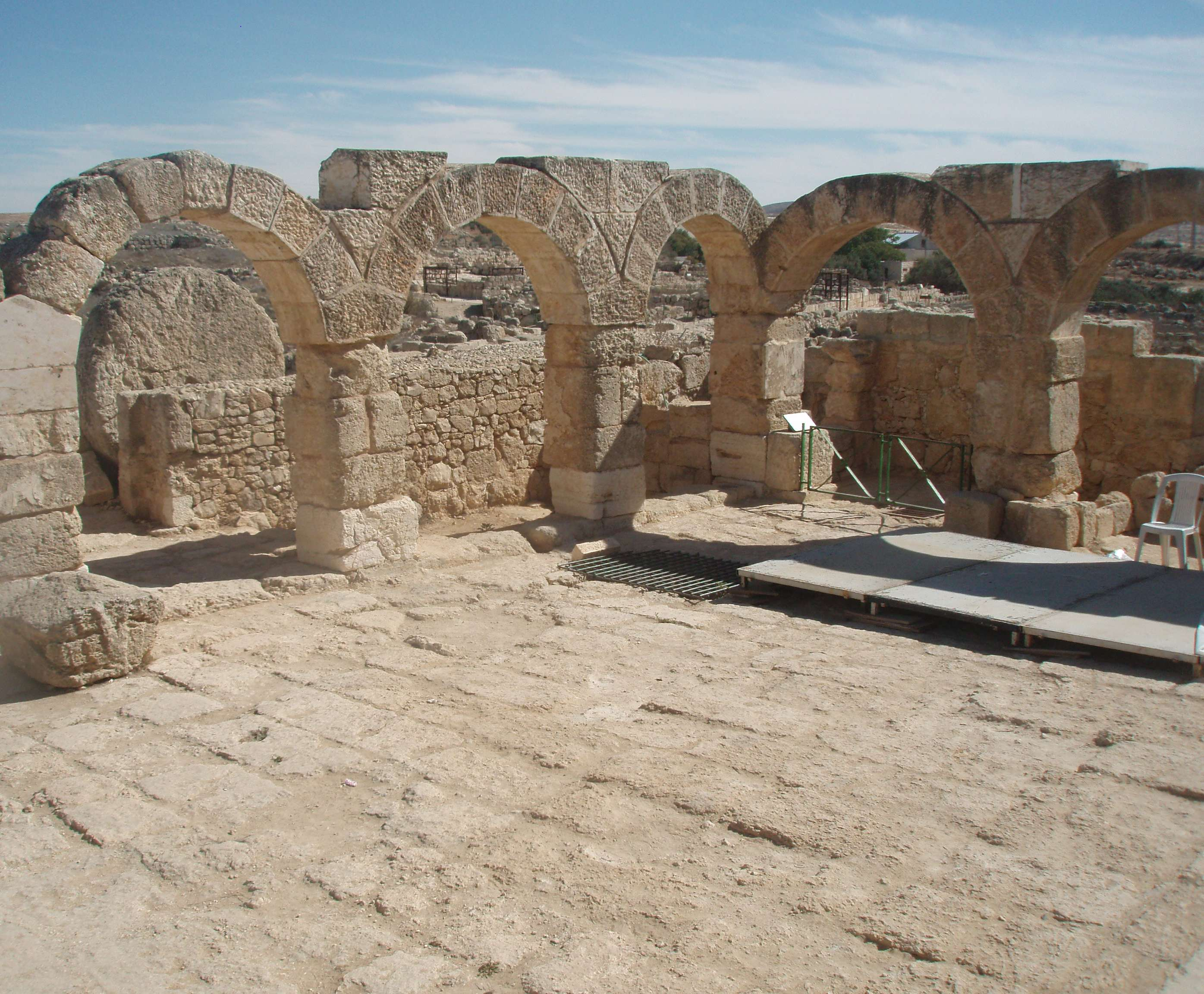 Archaeological site of Susya in Hebron hills.